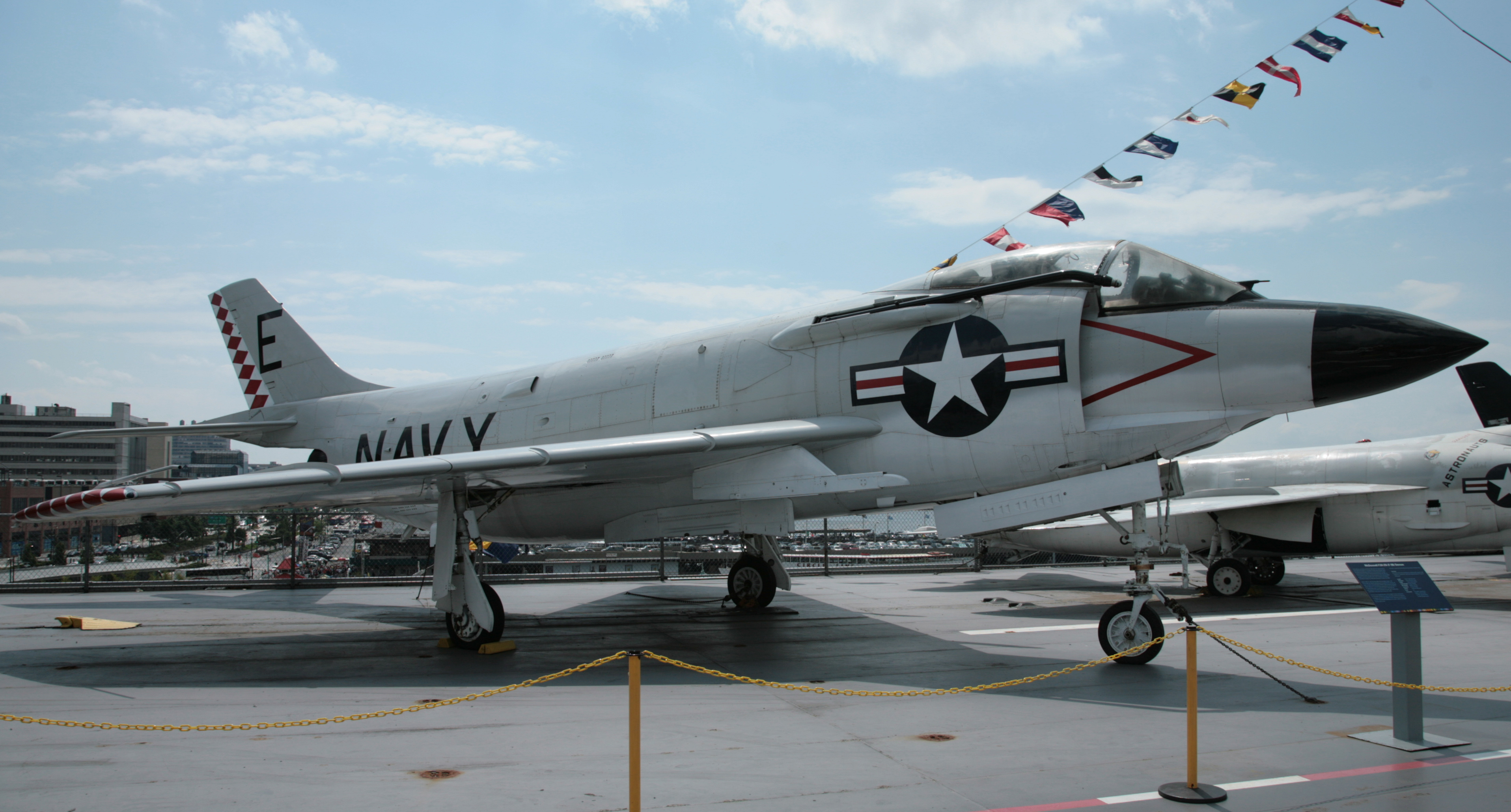 A former U.S. Navy McDonnell F3H-2N Demon fighter (BuNo 133566) on the deck of the USS Intrepid (ex-CVS-11) in August 2006. The aircraft is on loan from the U.S. Navy National Museum of Naval Aviation.